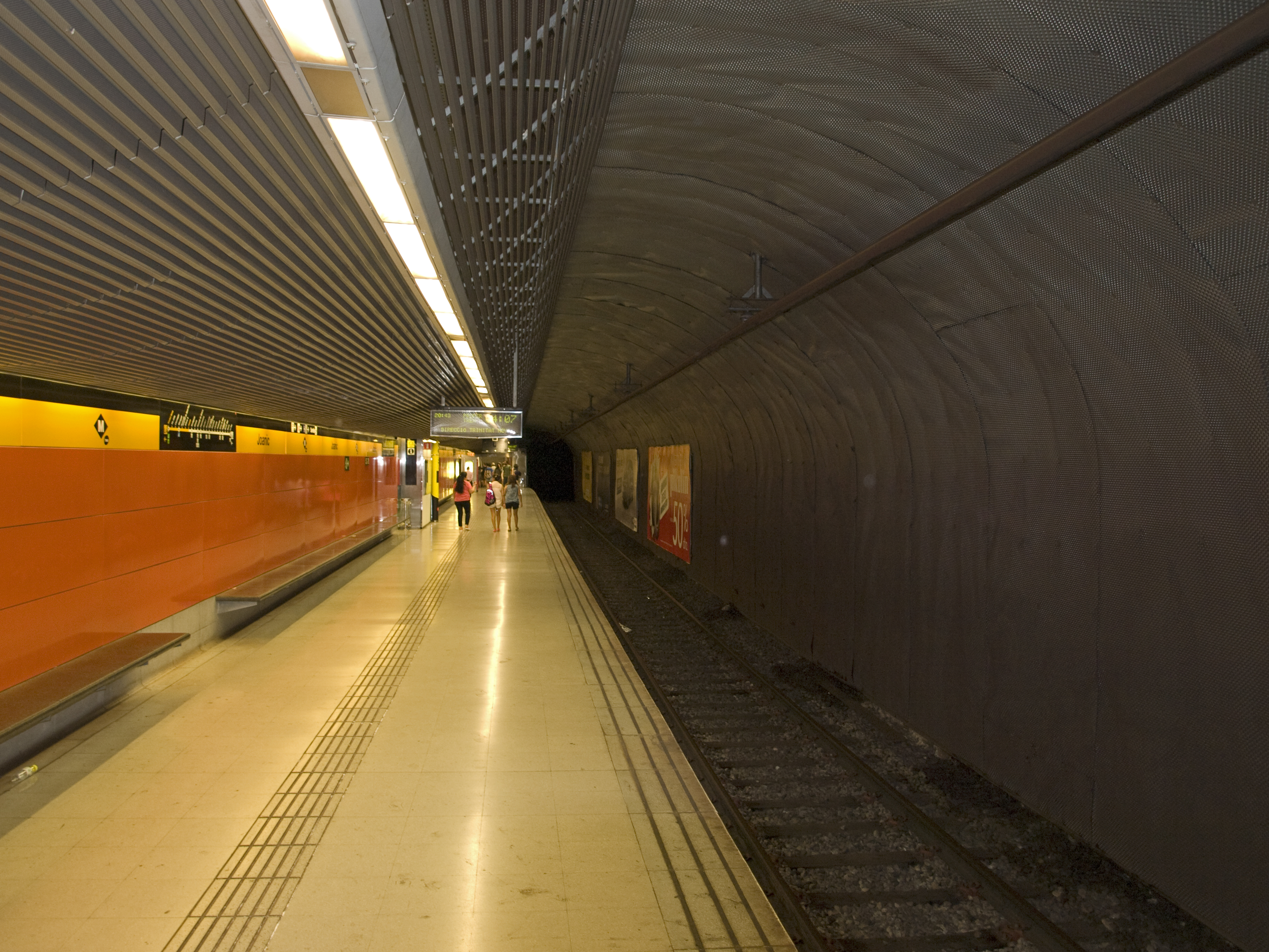 Joanic station, line L4 northbound platform, Barcelona Metro